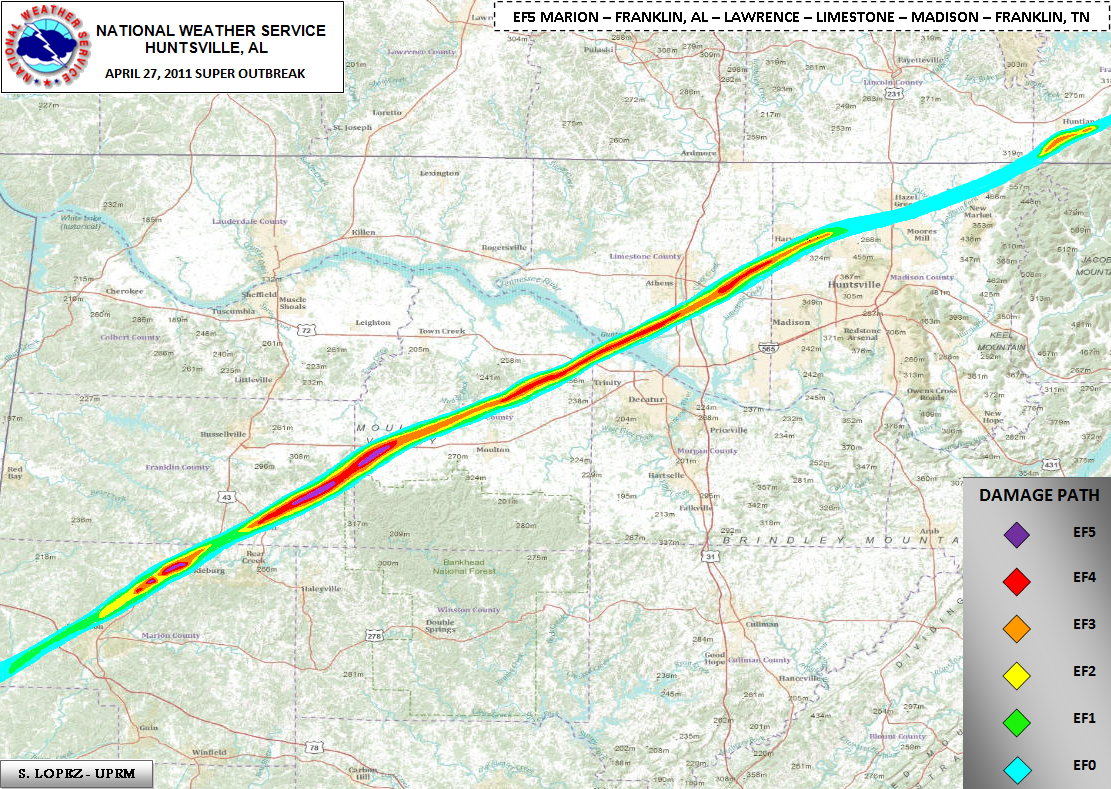 The entire track of the Hackleburg-Phil Campbell tornado.